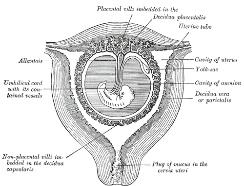 Sectional plan of the gravid uterus in the third and fourth month. (Modified from Wagner.)